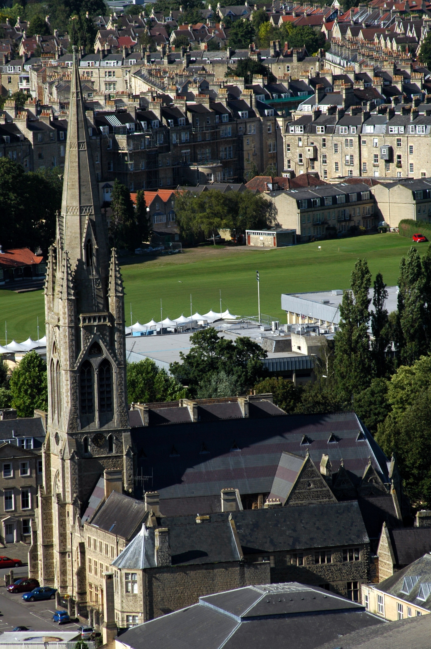 Created by Erebus555 in July 2007. This is St John's Church in Bath as viewed from Beechen Cliff.